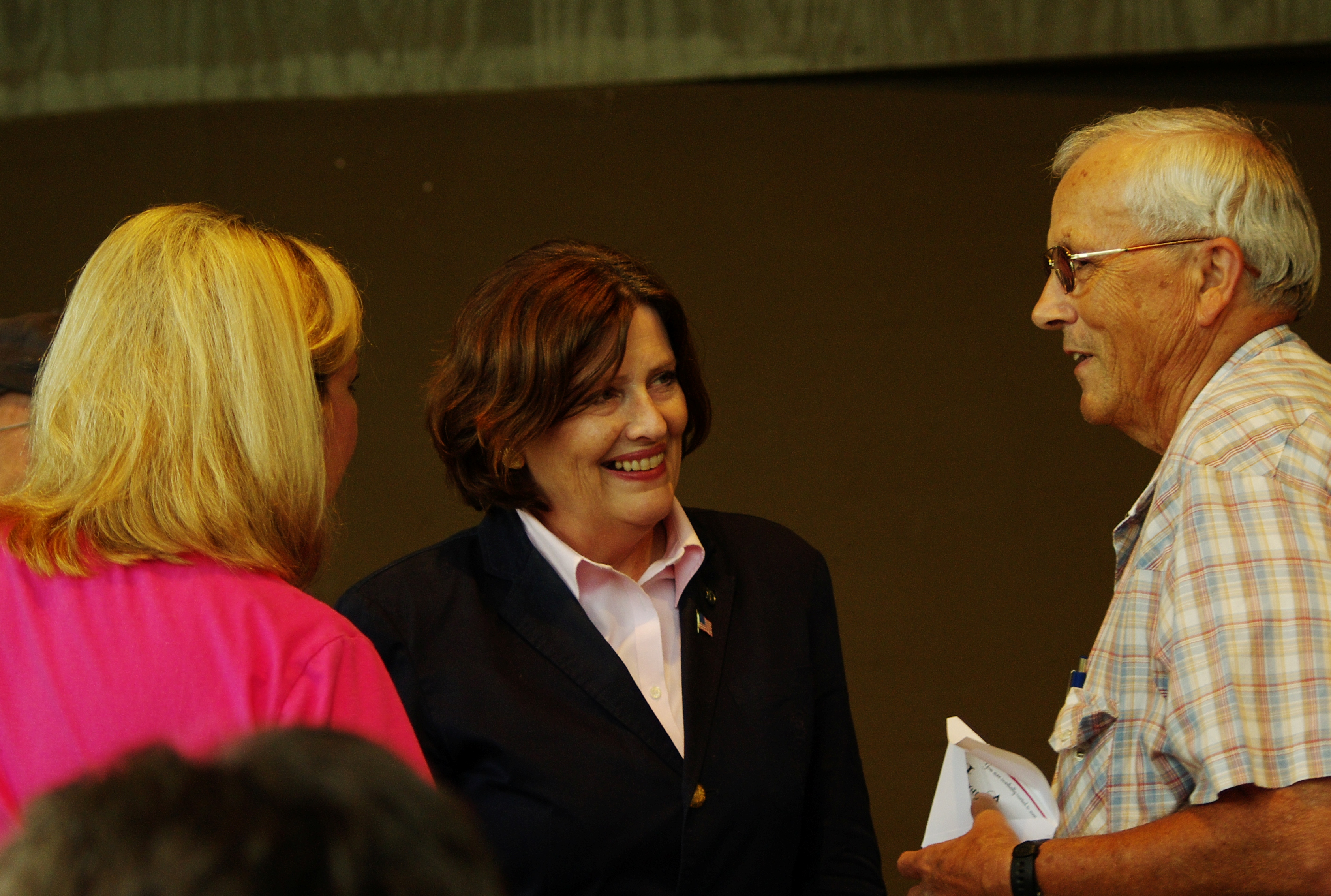 Tennessee congressional candidate Lou Ann Zelenik chats with voters in Cookeville, Tennessee, in July 2012. Zelenik was seeking the state's 6th congressional district seat.